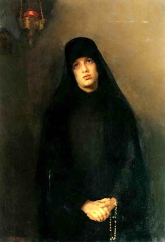 The Nun